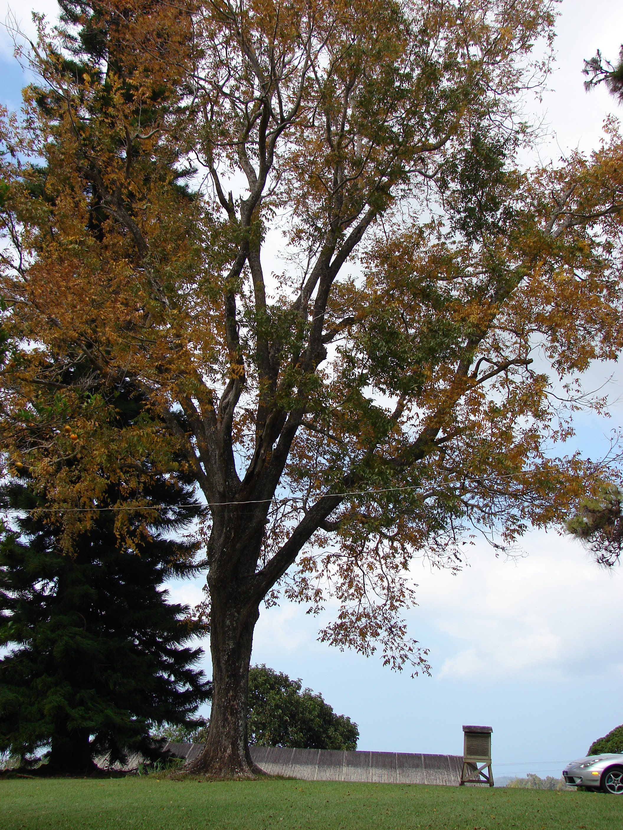 Carya pecan (habit with leaves turning color). Location: Maui, MISC HQ Piiholo